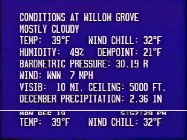 A screen capture of a WeatherStar III unit displaying local weather conditions.